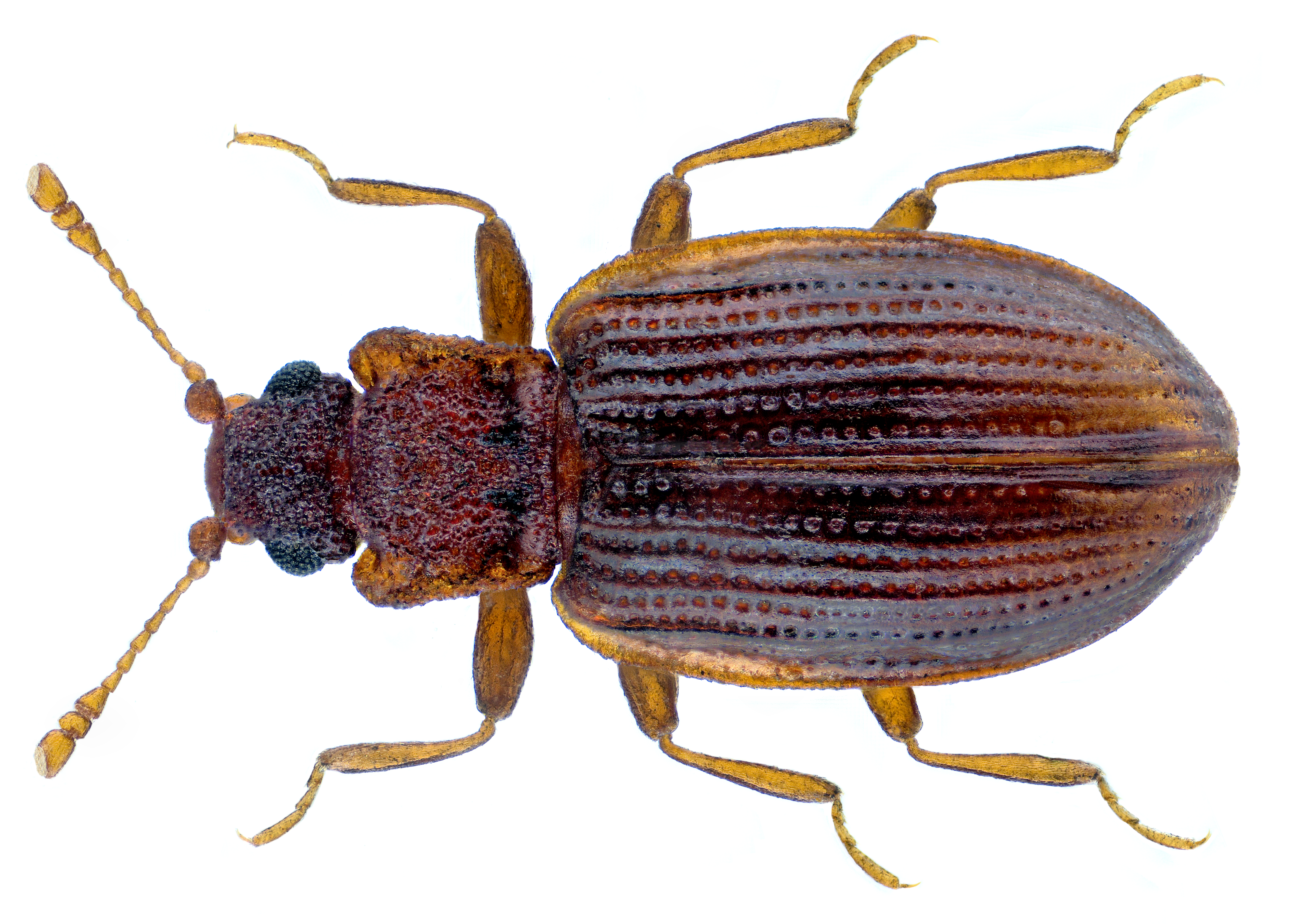 Family: Latridiidae Size: 1.96 mm (1.2 to 2.0 mm) Distribution: Europe Ecology: The beetles live in moldy plant residues and probably feed on fungi Location: England, Handley Dorst leg.det. P.Harwood, 23.VIII.1931 Coll. Oxford University Museum of Natural History Photo: U.Schmidt, 2018